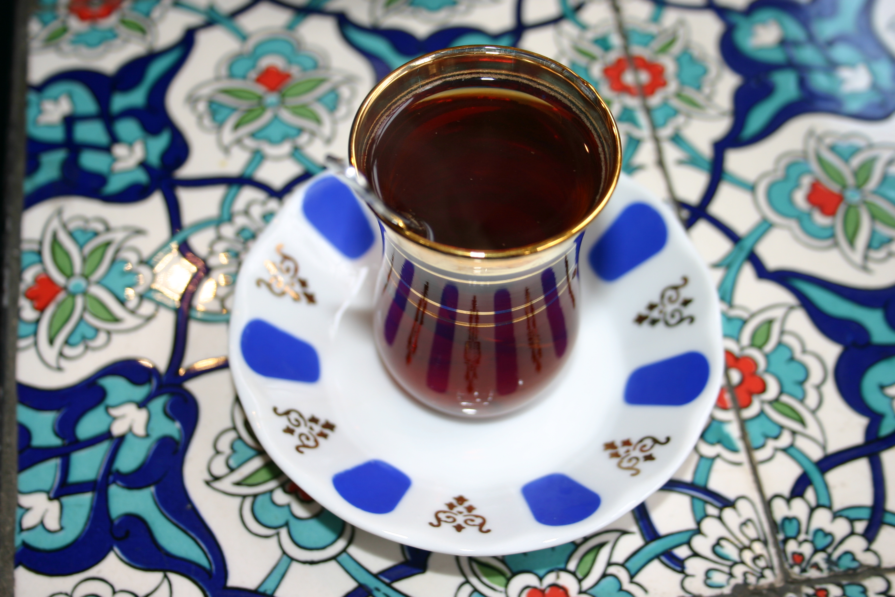 Turkish tea, served in a typical glass called 'ince belli bardak', which means 'thin waisted glass'. Photo by Bertil Videt, 2006.